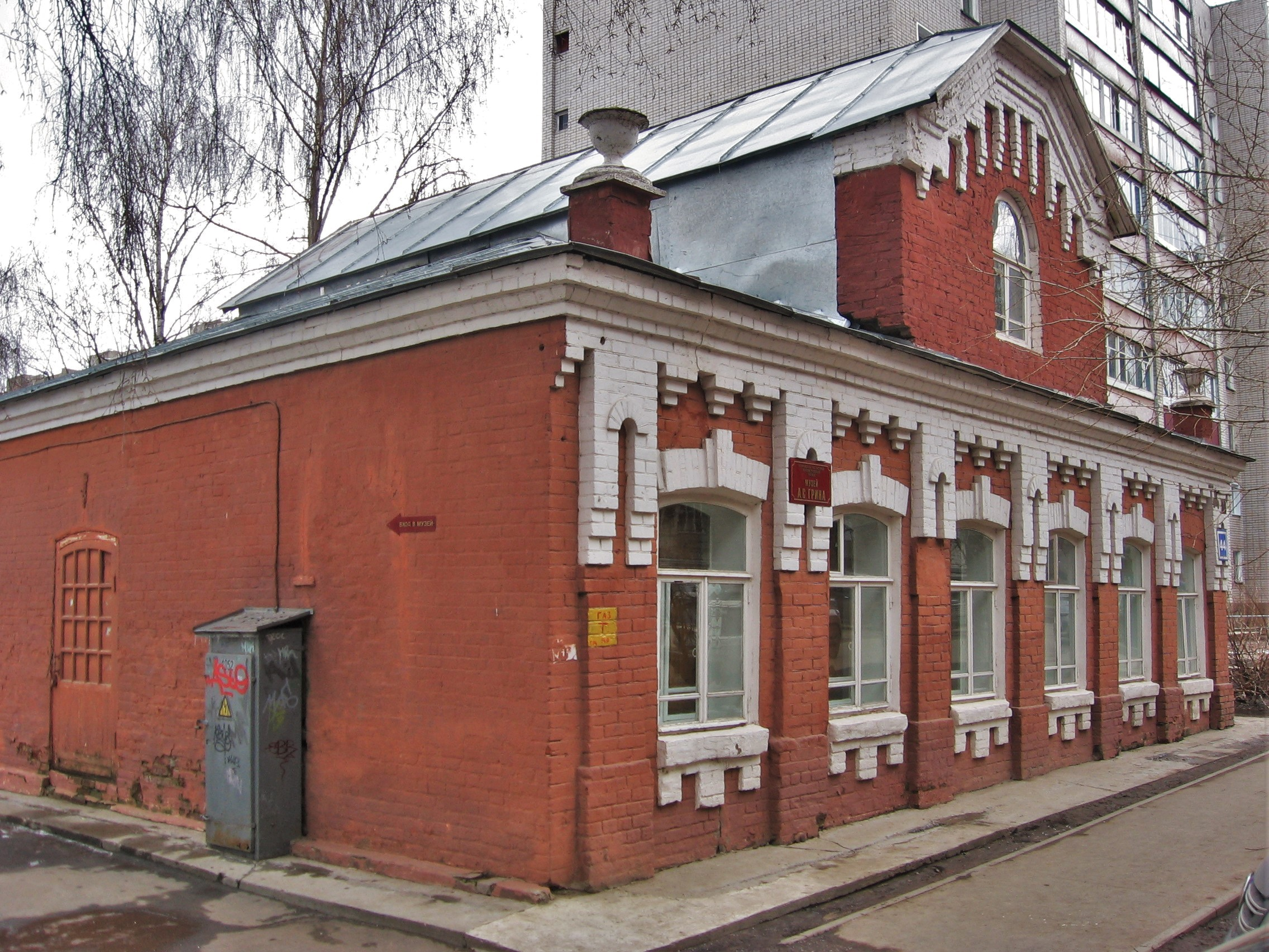 Museum of Alexander Grin, Kirov region, Kirov, Russia жил писатель Александр Степанович Грин Place: Кировская область, г. Киров, ул. Володарского, д. 44 Built: нет информации Approved: постановление Совета Министров РСФСР № 624, прил.1 от 04.12.1974